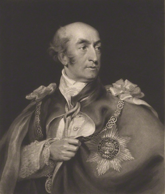 Portrait of John Blaquiere, 1st Baron de Blaquiere (1732-1812)